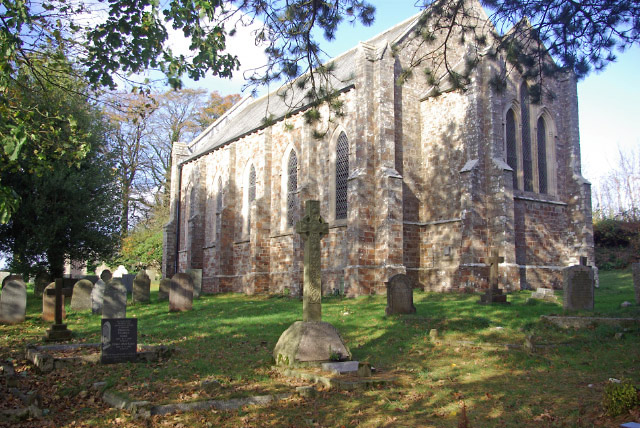 Chittlehamholt Church Dedicated to St John the Baptist, this church is in a rather lonely location some distance from the village.